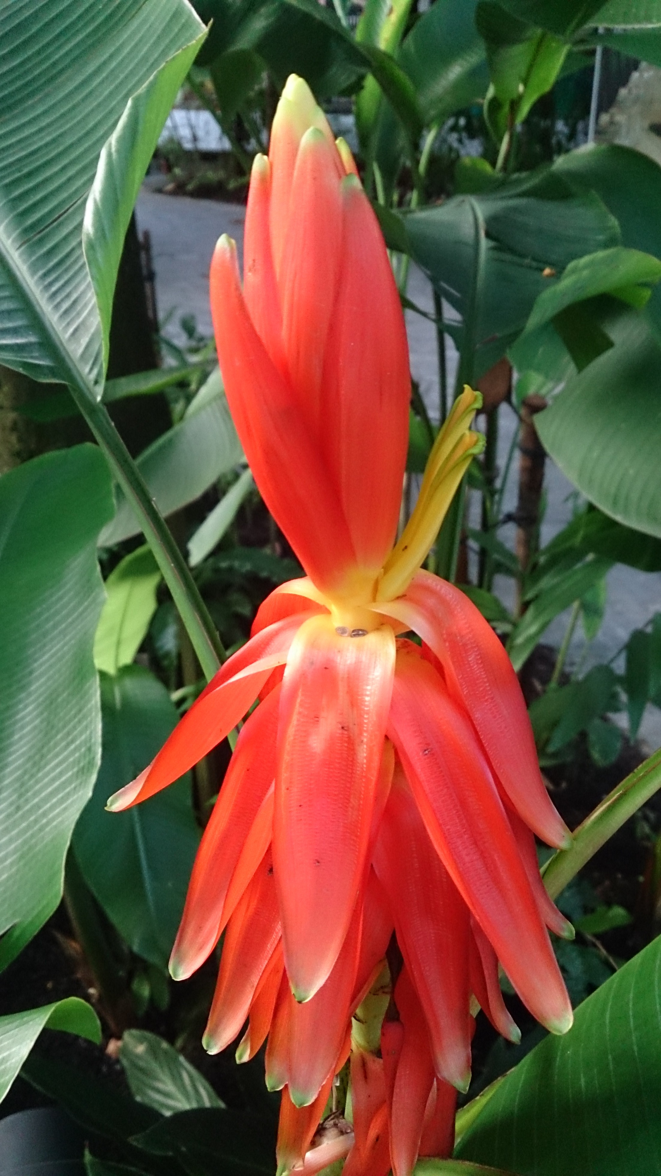 Musa coccinea. Common name: Scarlet Banana. Distributed in Indochina and China, this species grows up to 3m and prefers partly shaded places. This highly ornamental species has bright red bracts with yellow-green tips.